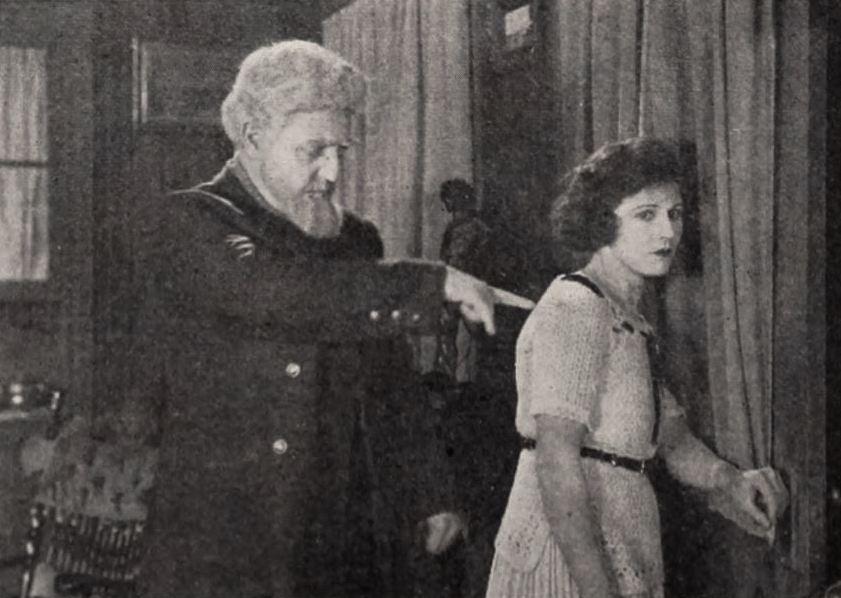 Still from the American drama film The Girl from Rocky Point (1922) with Ora Carew and Milton Ross, on page 76 of the March 25, 1922 Exhibitors Herald.